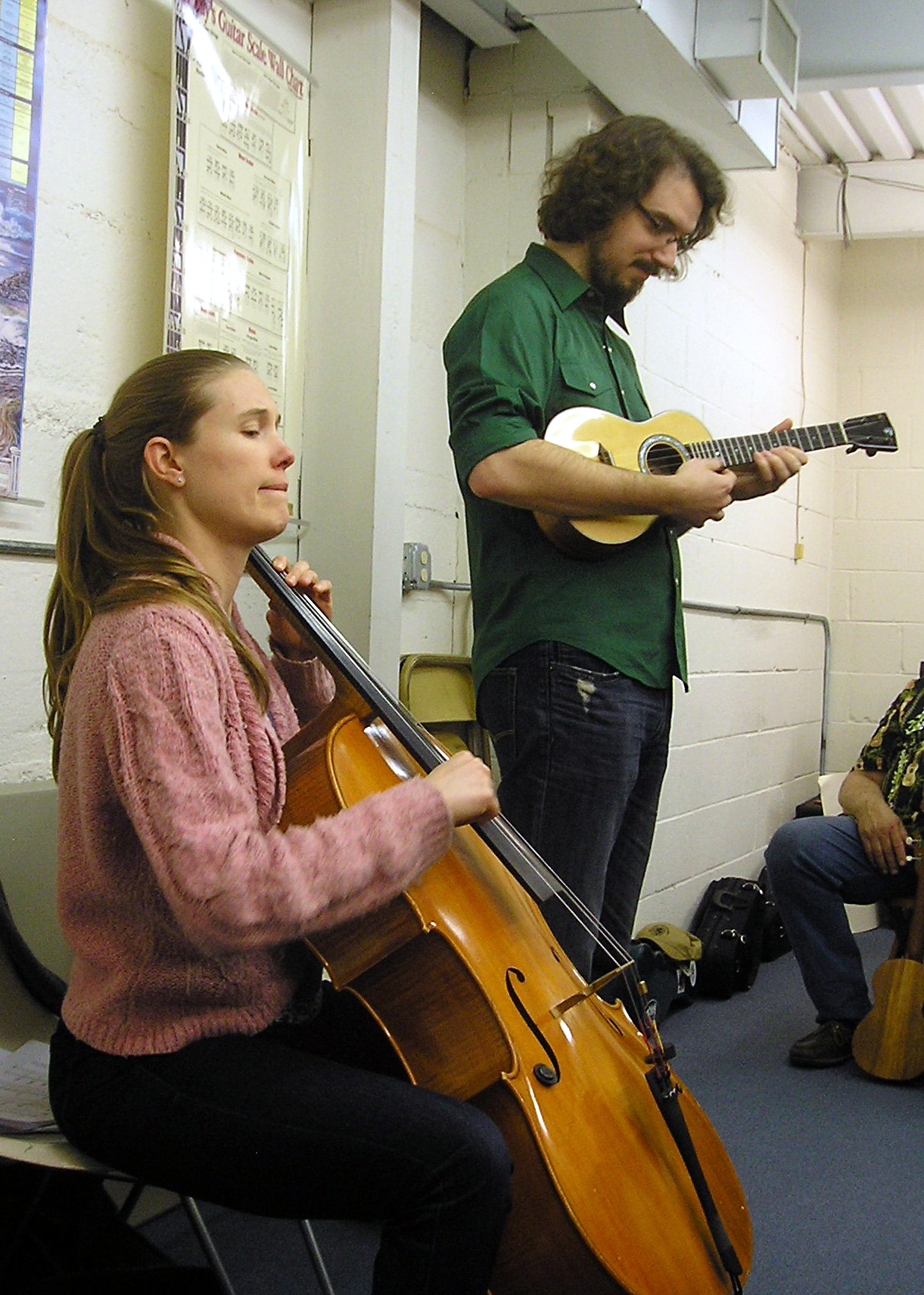 James Hill and Anne Janelle conducting a workshop at Elderly Instruments for Mighty Uke Day III in May 2013.